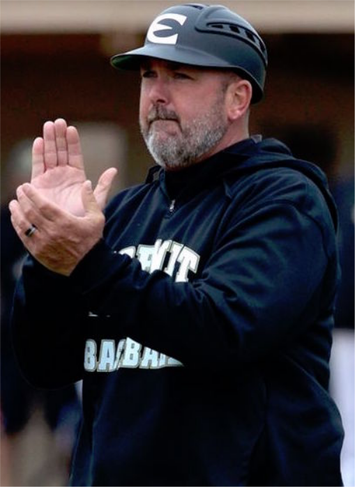 Emporia State Head Baseball Coach, Bob Fornelli, clapping during a game in the 2016 season.